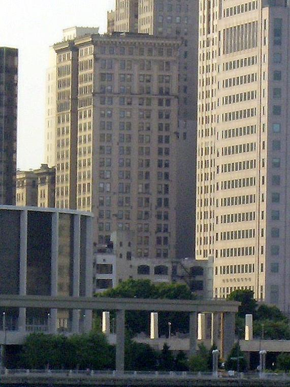 The Penobscot Block complex, with the Penobscot Building Annex (center left) — Downtown Detroit, Michigan. Penobscot Block contributing properties to the Historic Detroit Financial District, and on the National Register of Historic Places. self made